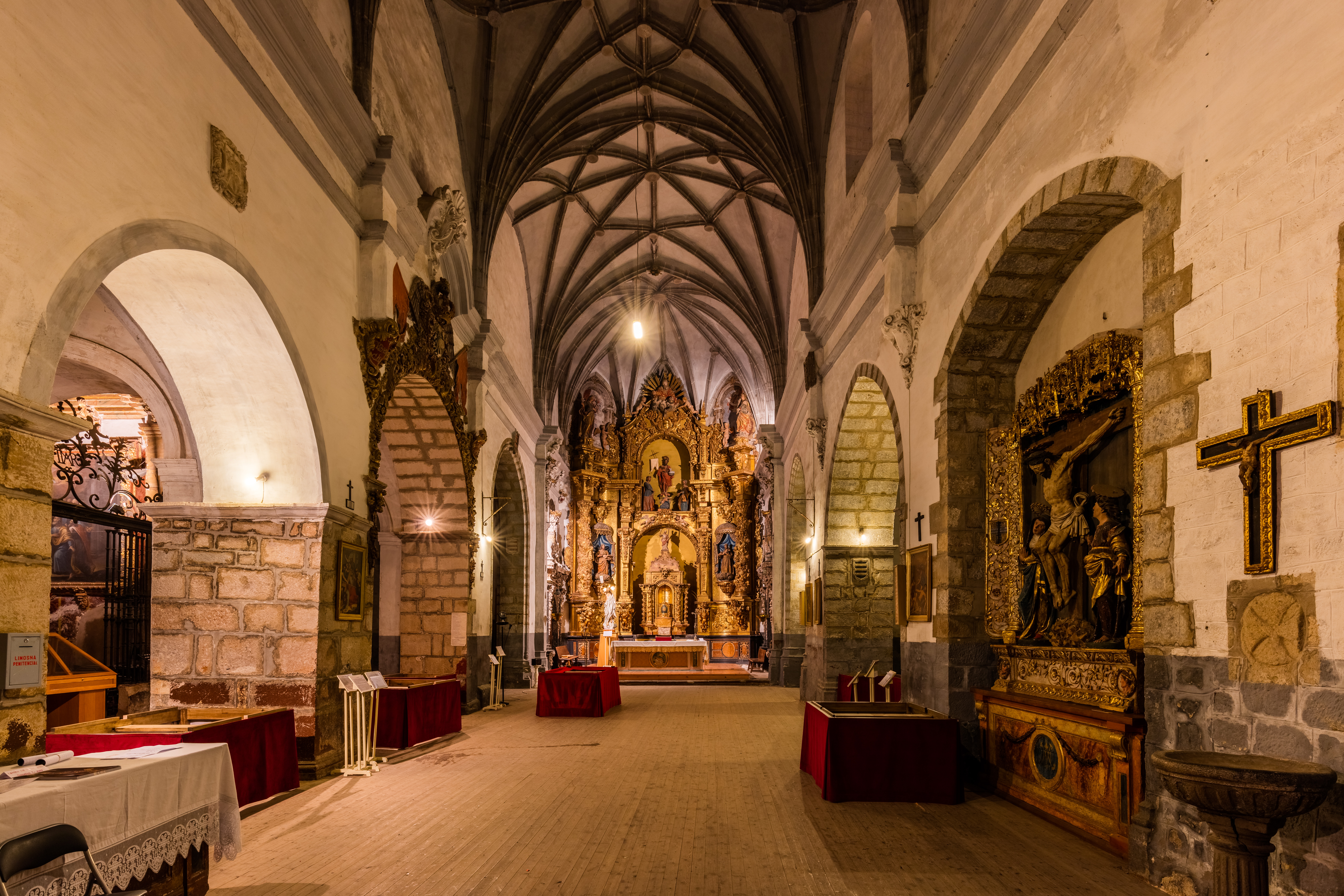 Interior of the church of John the Baptist, Ágreda, province of Soria, Castile and León, Spain. The chapel was built in 1697 by Count of Villarea. The originally Romanesque church (visible in its portal) was built in the second half of the 12th century and reworked in the 16th century with Gothic, Renaissance and Baroque elements, while the reredos behind the image dates from the 18th century.